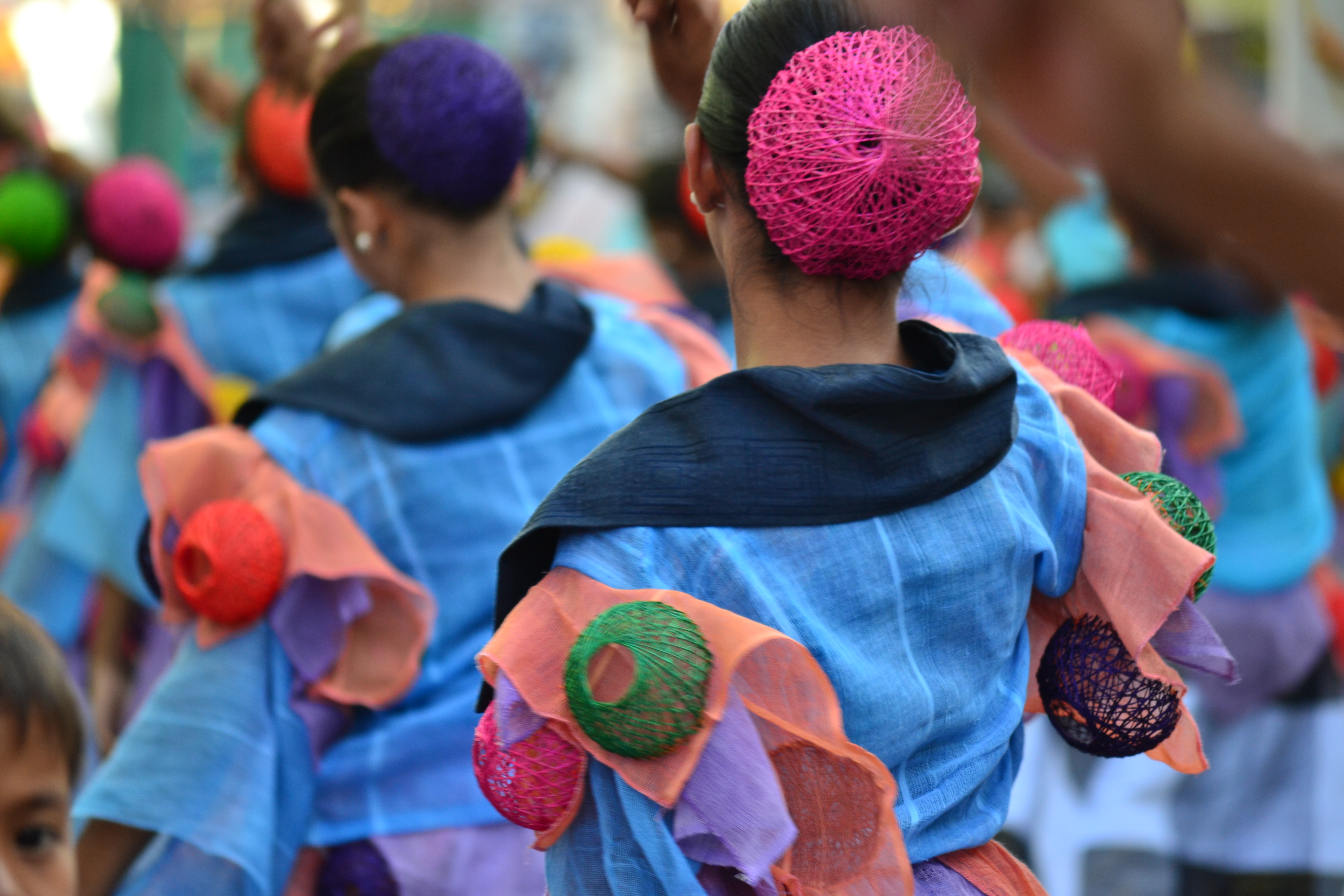 The colorful costumes of the street dancers dancing in the hot April sunny afternoon..